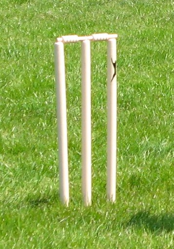 Wicket